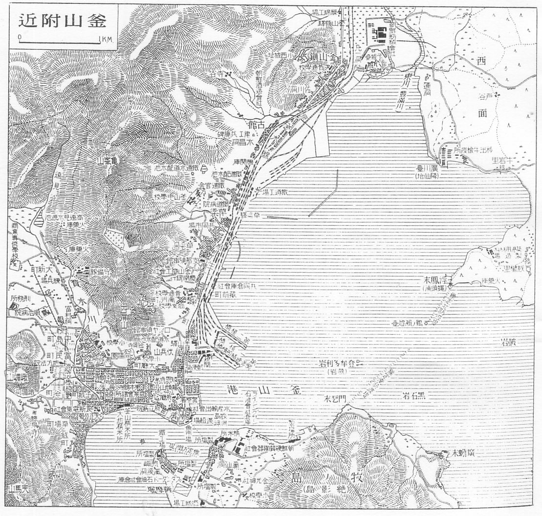 Fusan(Busan) map circa 1930